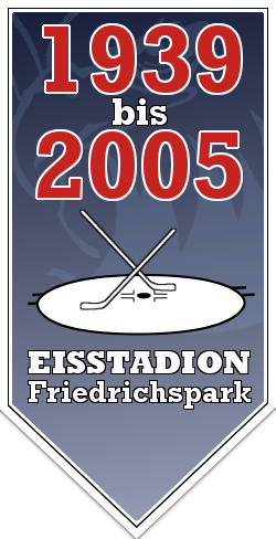 Banners in honour of the "Ice stadium Friedrichspark", old home ice of the Adler Mannheim, at the SAP-Arena, uses the GFDL picture Image:Mannheim-Adler-Logo.jpg